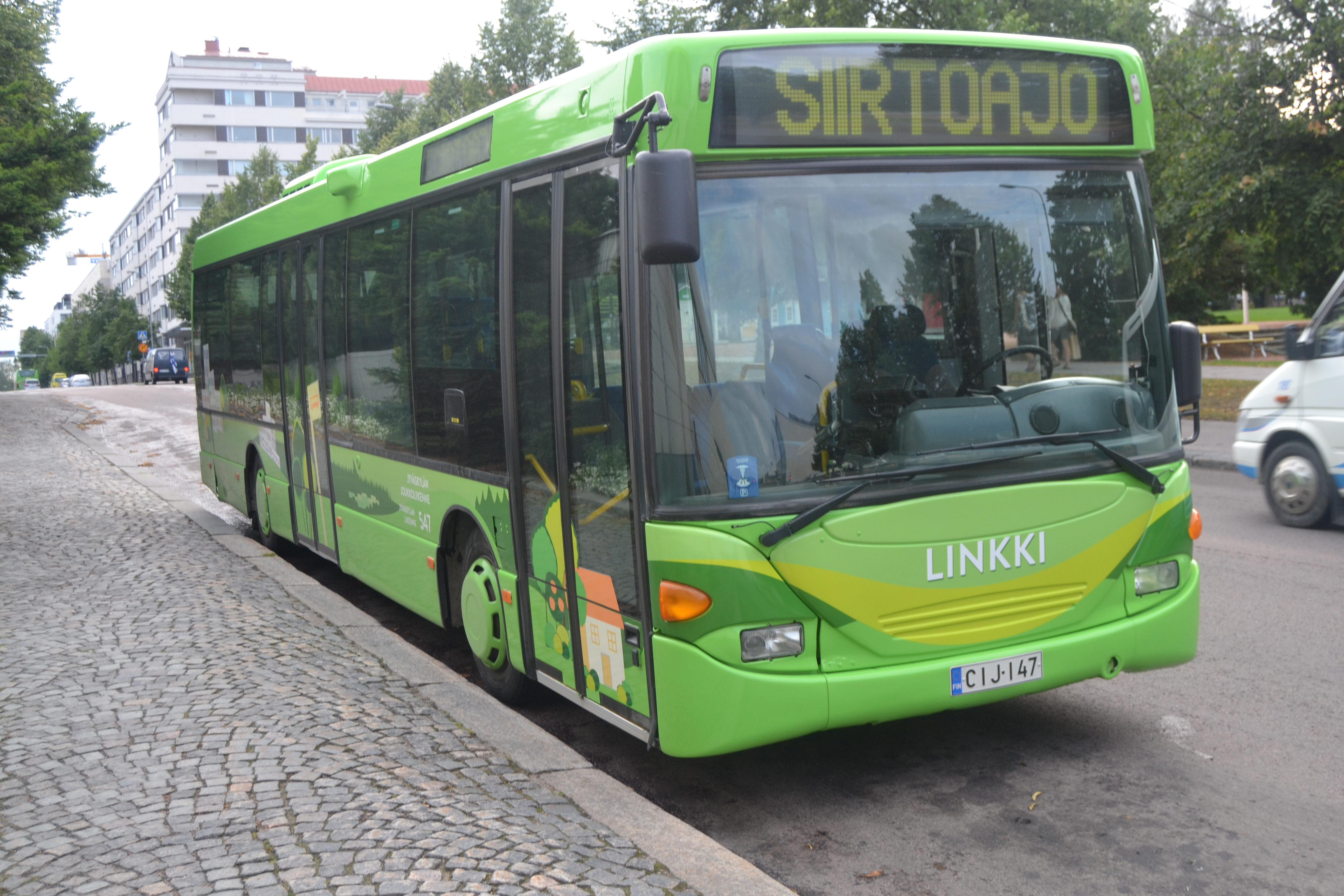 Jyväskylän Liikenne Scania CL94 UB / Scania Omnilink bus (CIJ-147, 2000) in Jyväskylä